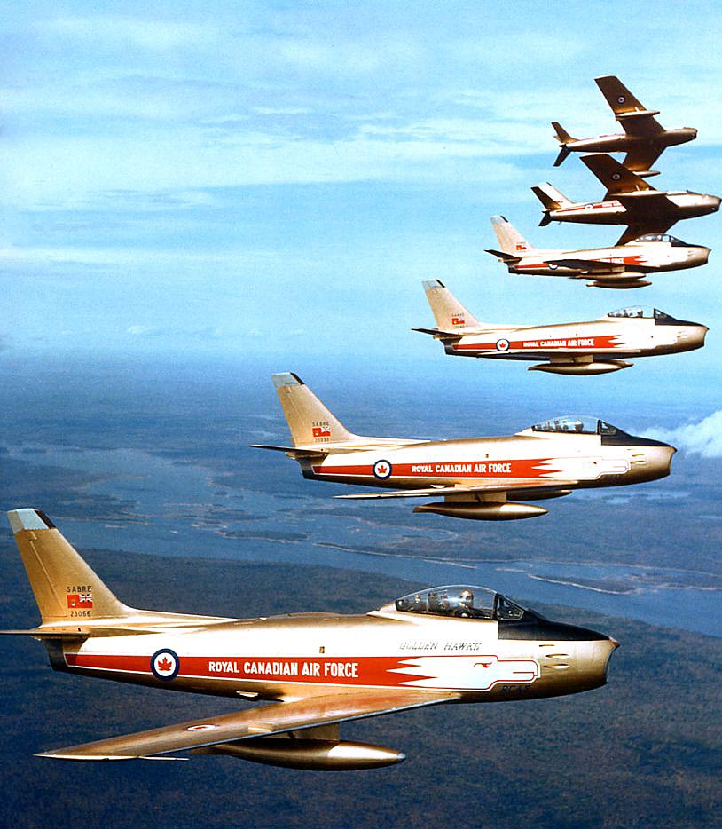 Royal Canadian Air Force Golden Hawks aerobatic team, May 12, 1959.